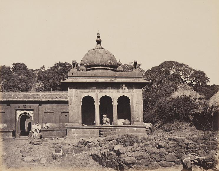 Title: Temple of Siva (Mahades), Source of Chrisna. Mahabuleshwar. Alternative Title: [Panchganga Temple] Creator: Johnson, William Date: ca. 1855-1862 Series: Photographs of Western India. Volume III. Scenery, Public Buildings, &c. Part of: Photographs of Western India Place: Mahabaleshwar, Maharashtra, India Description: This is the exterior of the Panchganga (Five Rivers) Temple in Old Kshetra Mahabaleshwar, the attributed source of the Krishna, Koyna, Venna, Savitri, and Gayatri rivers. Physical Description: 1 photographic print: albumen, part of 1 volume (104 albumen prints); 20 x 26 cm on 35 x 42 cm mount File: vault_ag2002_1407x_3_267_temple_opt.jpg Rights: Please cite Southern Methodist University, Central University Libraries, DeGolyer Library when using this image file. A high-quality version of this file may be obtained for a fee by contacting . For more information, see: View Europe, India, and Asia: Photographs, Manuscripts, and Imprints